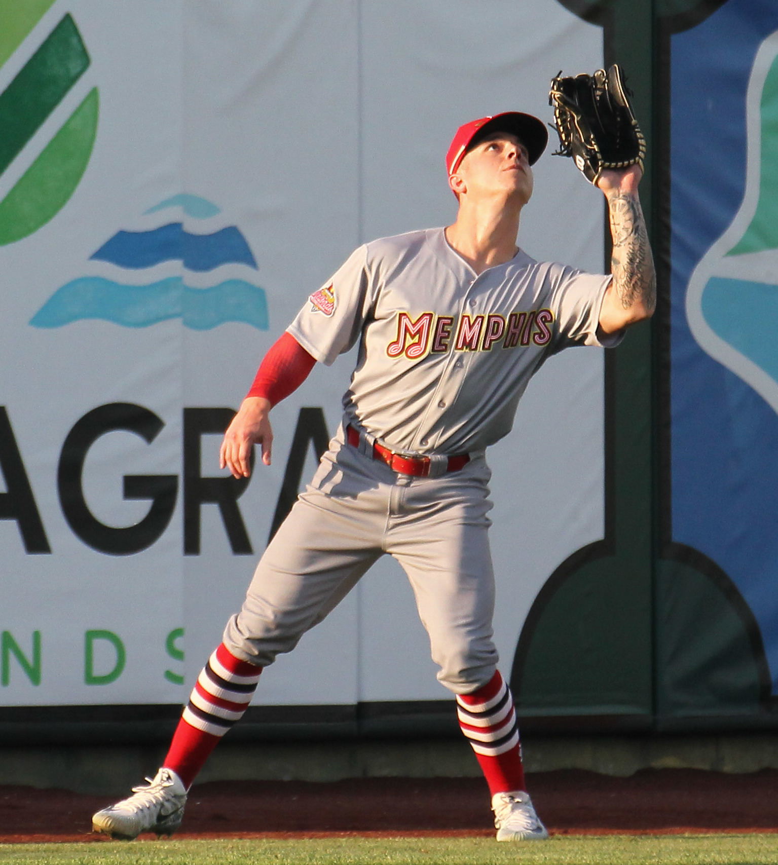 Tyler O'Neill of the Memphis Redbirds makes a catch in the outfield of Werner Park in Omaha in 2018.